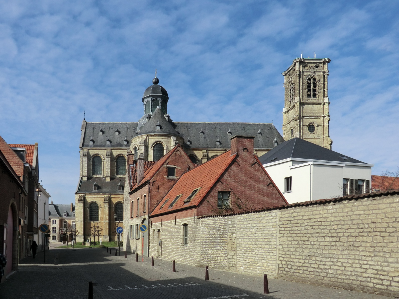 Grimbergen Abbey Native nameNorbertijnerabdijkerkLocationGrimbergen, BelgiumCoordinates50° 56′ 02″ N, 4° 22′ 15″ E Established1796Web page control : Q540647 VIAF: 141355831 institution QS:P195,Q540647